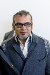 Gallerist Peter Nagy and Artist Subodh Gupta